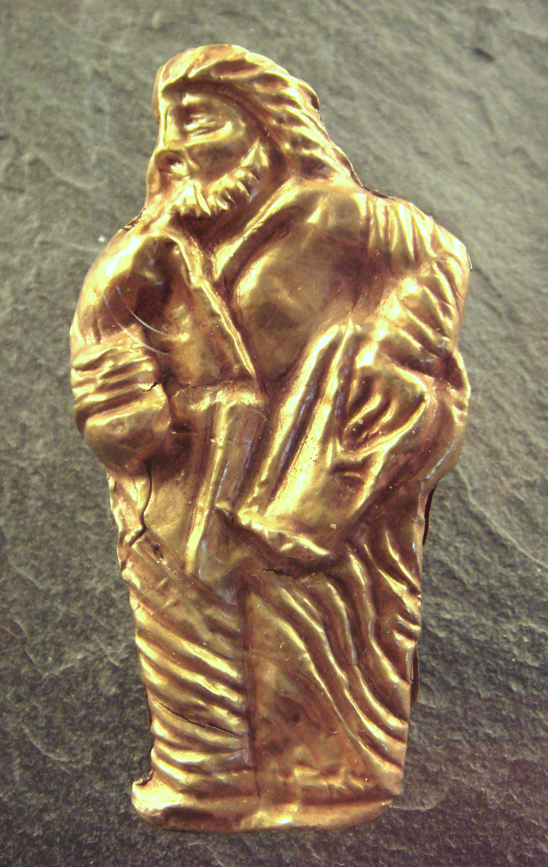 Scythian_Kul_Oba_Ukrainia